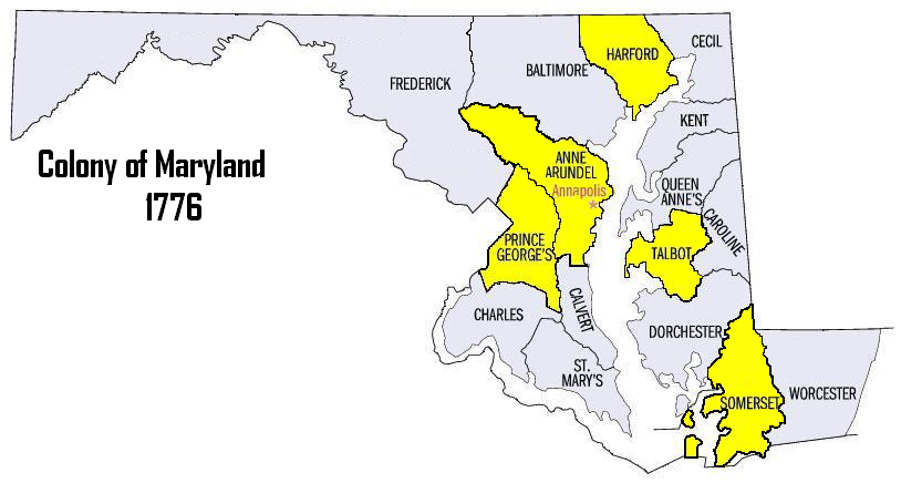 Prince Georges, Anne Arundle, Harford, Talbot, and Somerset counties